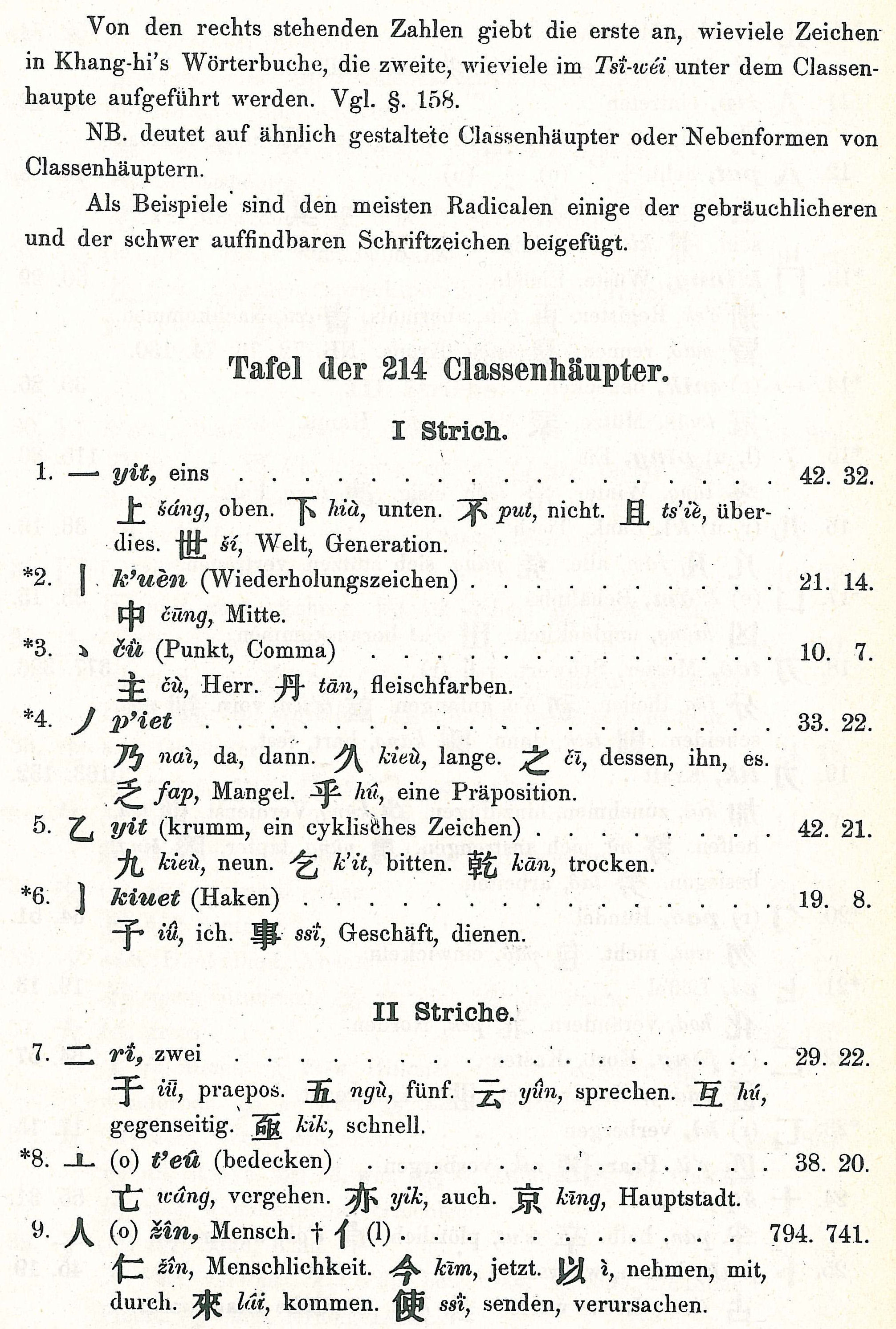 List of Chinese radicals